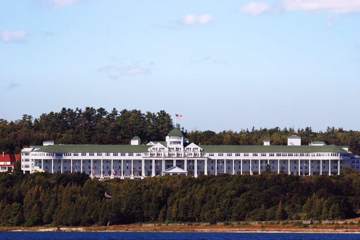 Grand Hotel, Mackinac Island, View From The Lake